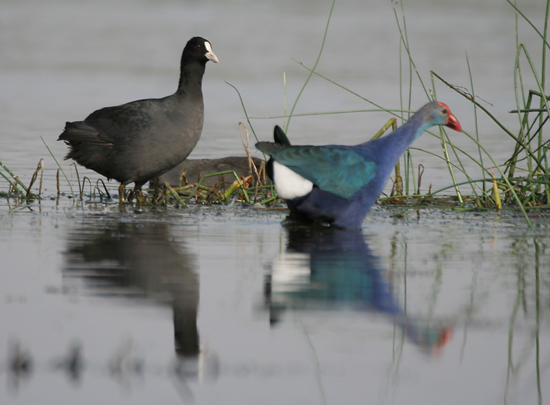 Common Coot (Fulica atra, left) and Purple Moorhen (Porphyrio porphyrio, right) at Hodal in the Faridabad District of Haryana, India